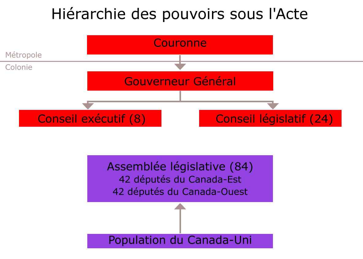 Government structure of United Canada in 1840 in French. Created using: Adobe Photoshop 7.0.